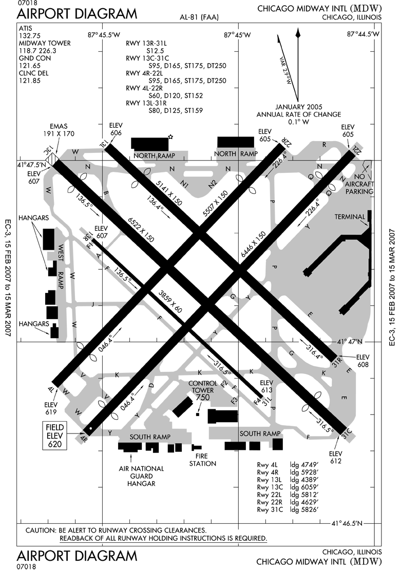 FAA diagram for Chicago Midway International Airport (MDW) in Chicago, Illinois, United States. category:Chicago Midway International Airport category:Federal Aviation Administration category:Maps